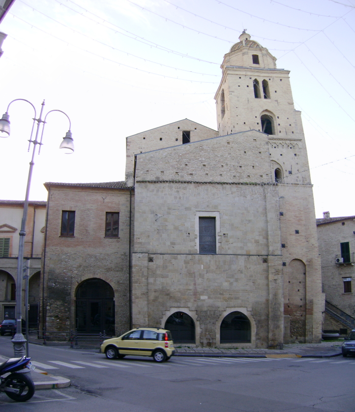 The church of St. Francis in Lanciano, province of Chieti, Abruzzo